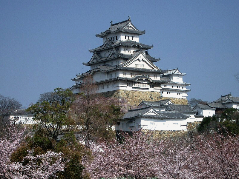 Himeji castle with cherry blossoms in Japan